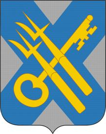 344 Military Intelligence Battalion coat of arms